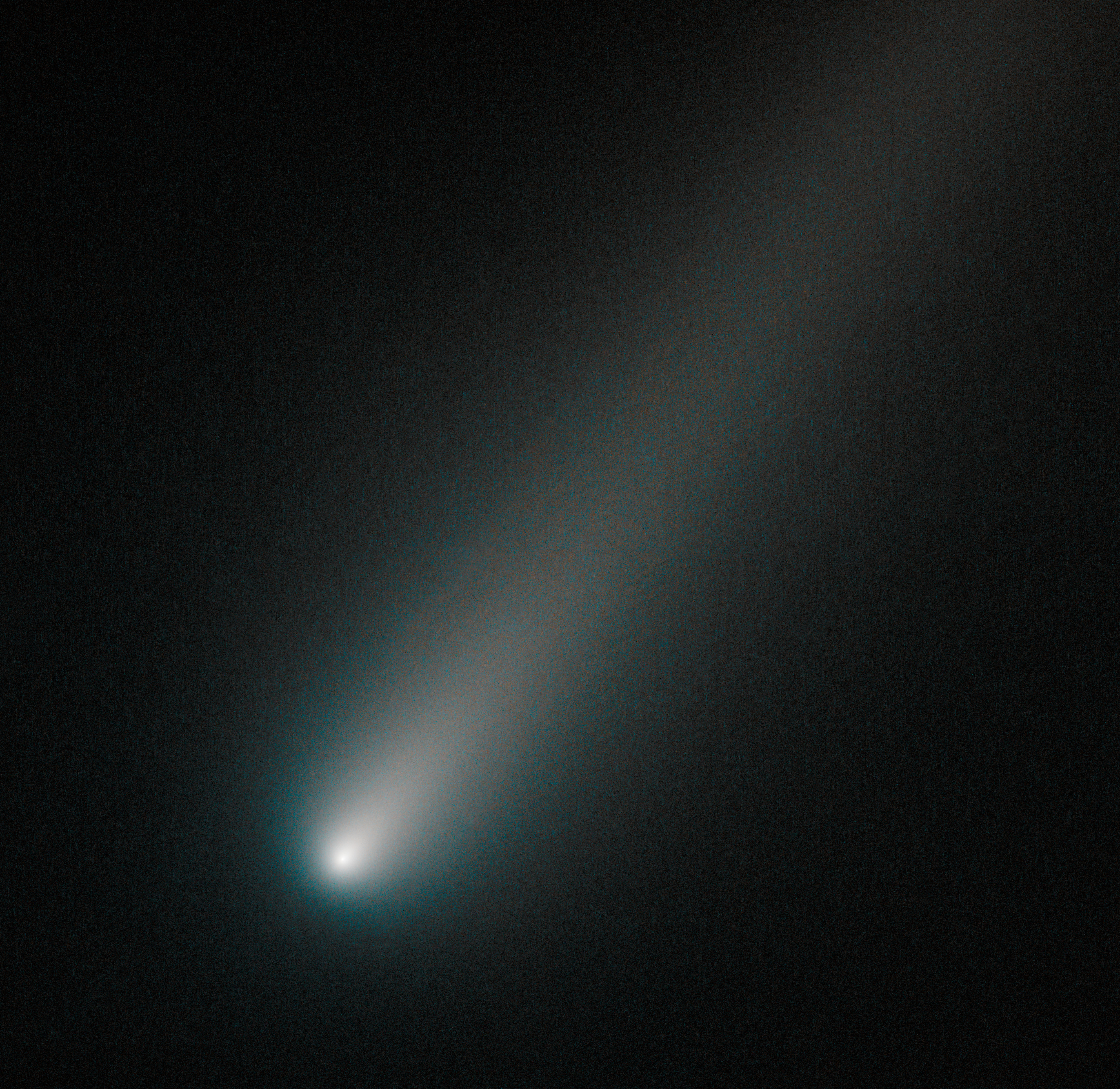 A new image of the sunward plunging Comet ISON suggests that the comet is intact despite some predictions that the fragile icy nucleus might disintegrate as the Sun warms it. The comet will pass closest to the Sun on November 28. In this NASA Hubble Space Telescope image taken on October 9, the comet's solid nucleus is unresolved because it is so small. If the nucleus broke apart then Hubble would have likely seen evidence for multiple fragments. Moreover, the coma or head surrounding the comet's nucleus is symmetric and smooth. This would probably not be the case if clusters of smaller fragments were flying along. A polar jet of dust first seen in Hubble images taken in April is no longer visible and may have turned off. This color composite image was assembled using two filters. The comet's coma appears cyan, a greenish-blue color due to gas, while the tail is reddish due to dust streaming off the nucleus. The tail forms as dust particles are pushed away from the nucleus by the pressure of sunlight. The comet was inside Mars' orbit and 177 million miles from Earth when photographed. Comet ISON is predicted to make its closest approach to Earth on December 26, at a distance of 39.9 million miles. NASA release Hubble Heritage release ISONblog